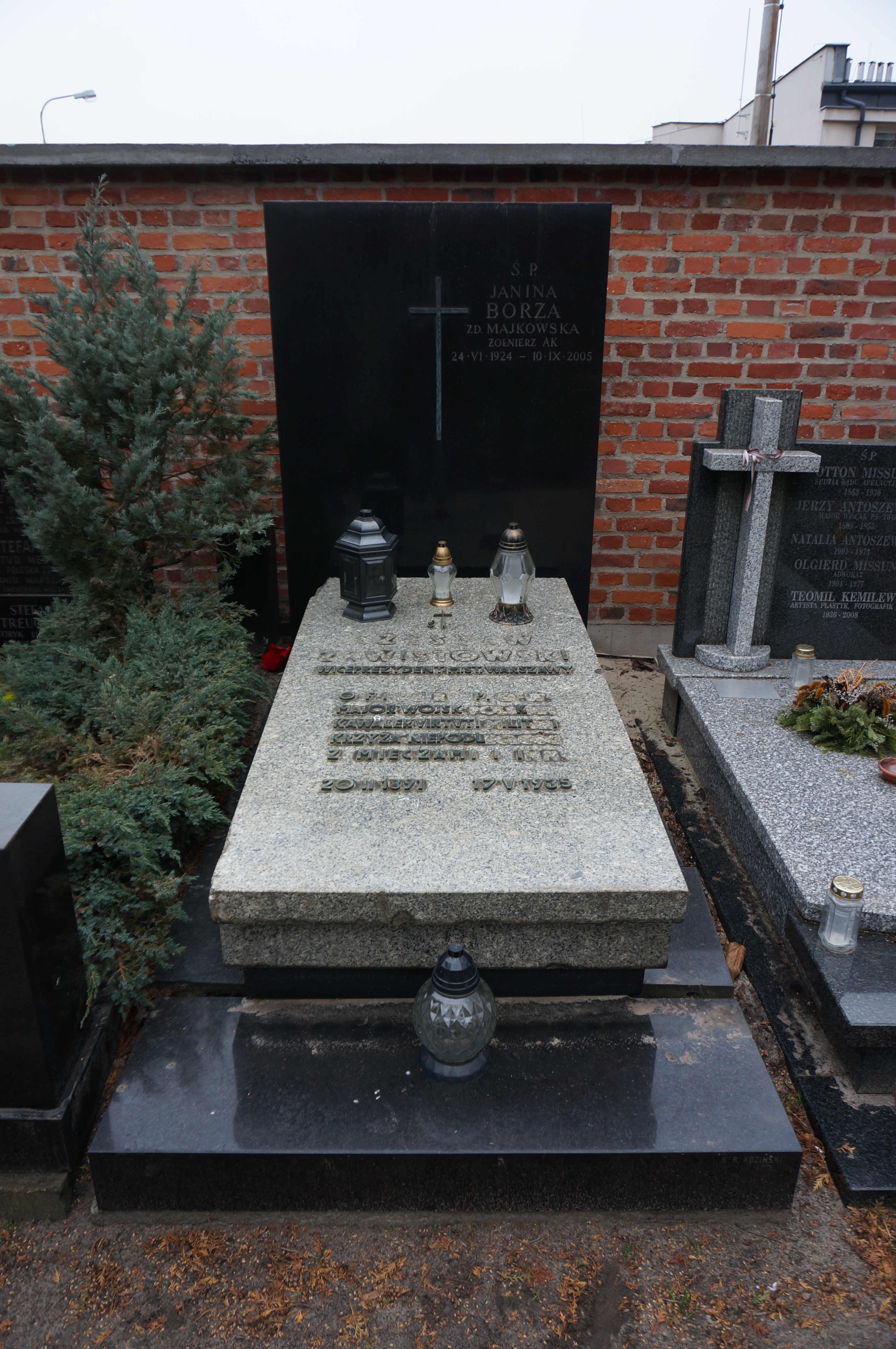 The grave of Czesław Zawistowski at the Powązki Cemetery (section Under the Wall V, row 1, grave 63)